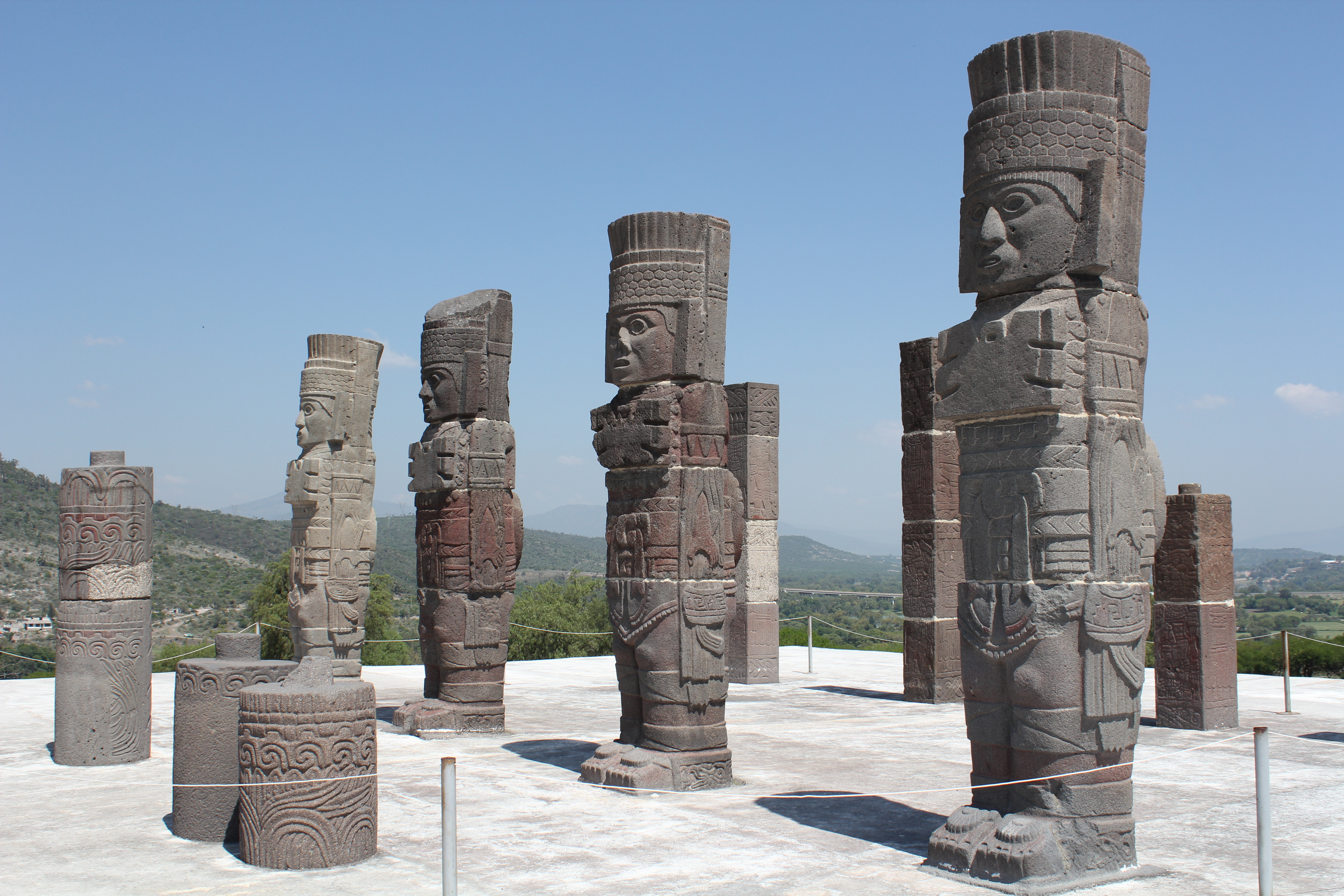 Tula, Atlantean columns on Pyramid B in form of Toltec warriors.